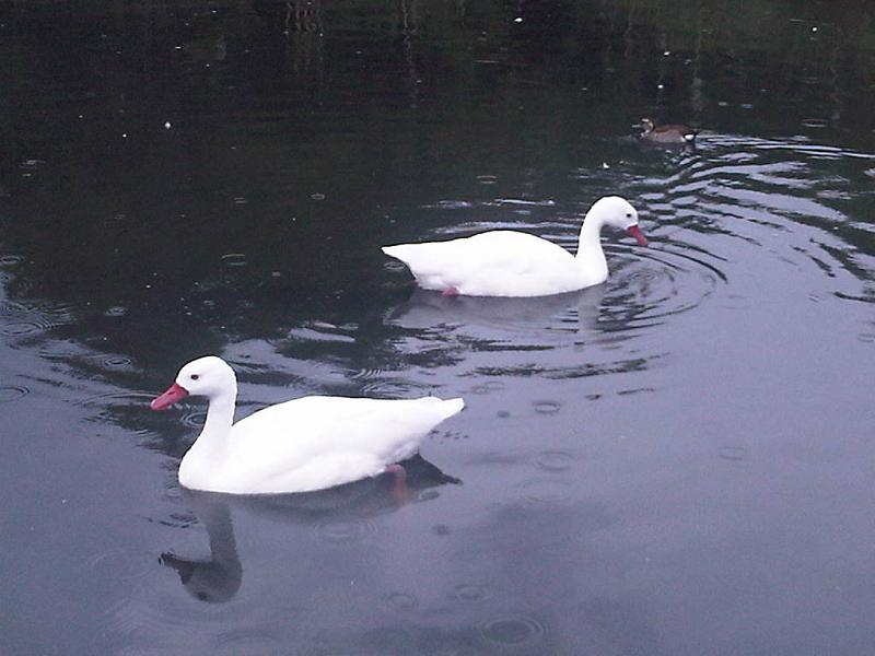 Coscoroba Swans (Coscoroba coscoroba) in WWT London Wetland Centre, England.